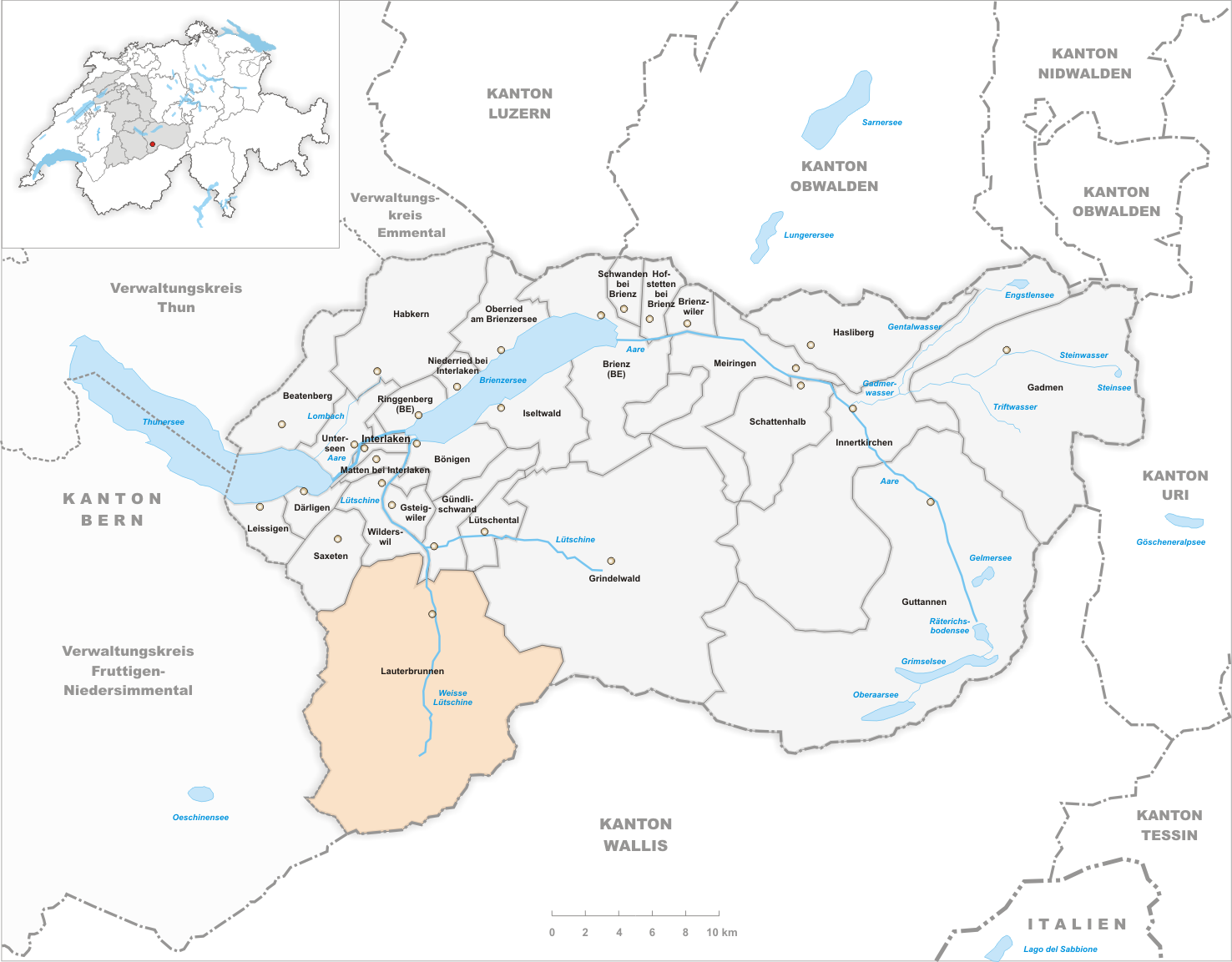 Municipality Lauterbrunnen